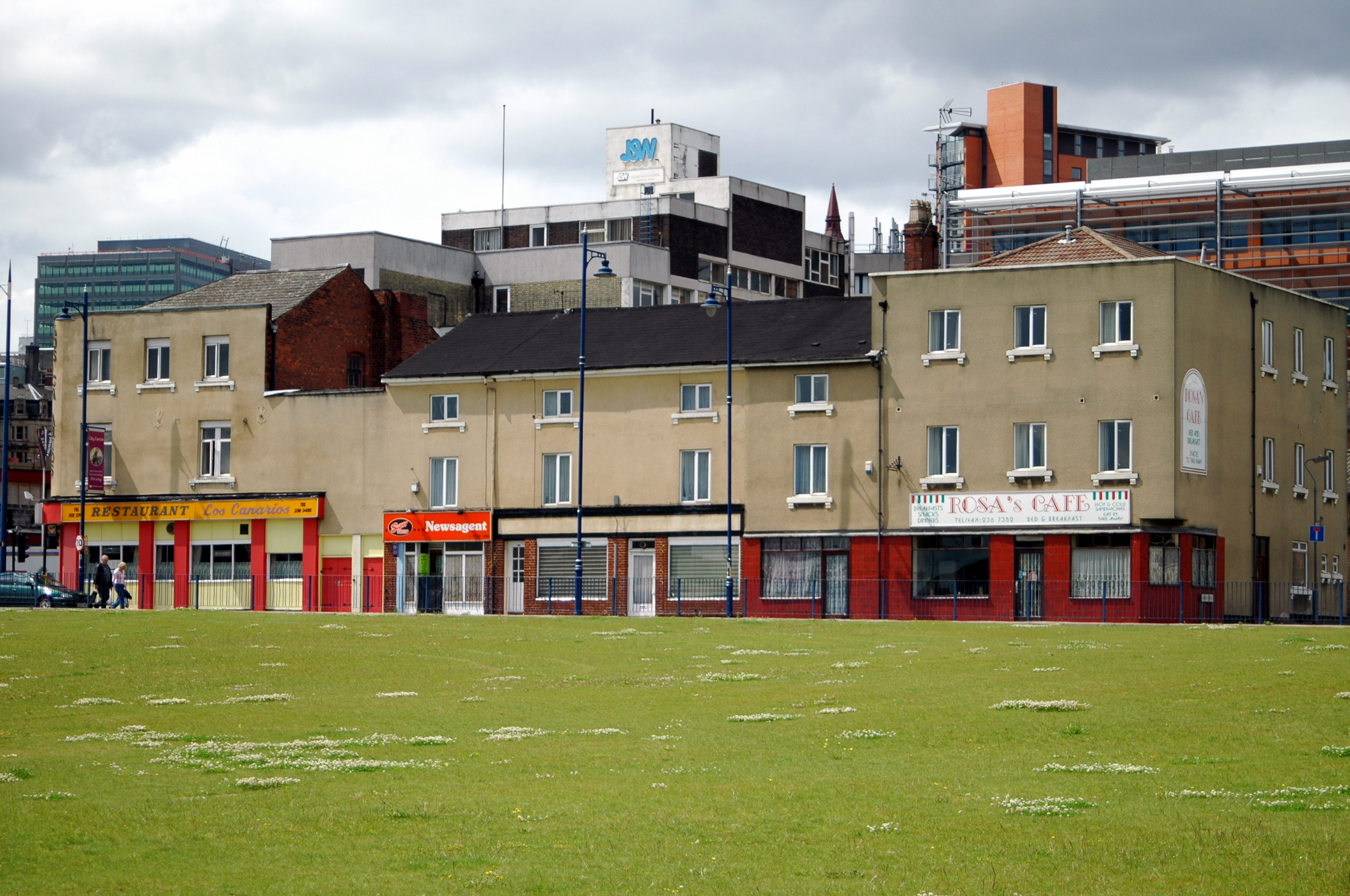 Los Cananeros, on the left, was Birmingham's first Spanish restaurant and has served several famous people. It has been in the area for over 35 years. The building, including Rosa's Cafe (on the right) which closed on the 21st December 2007 after 61 years of trading, and a newsagents (in the centre), is to be demolished to make way for the Eastside City Park.